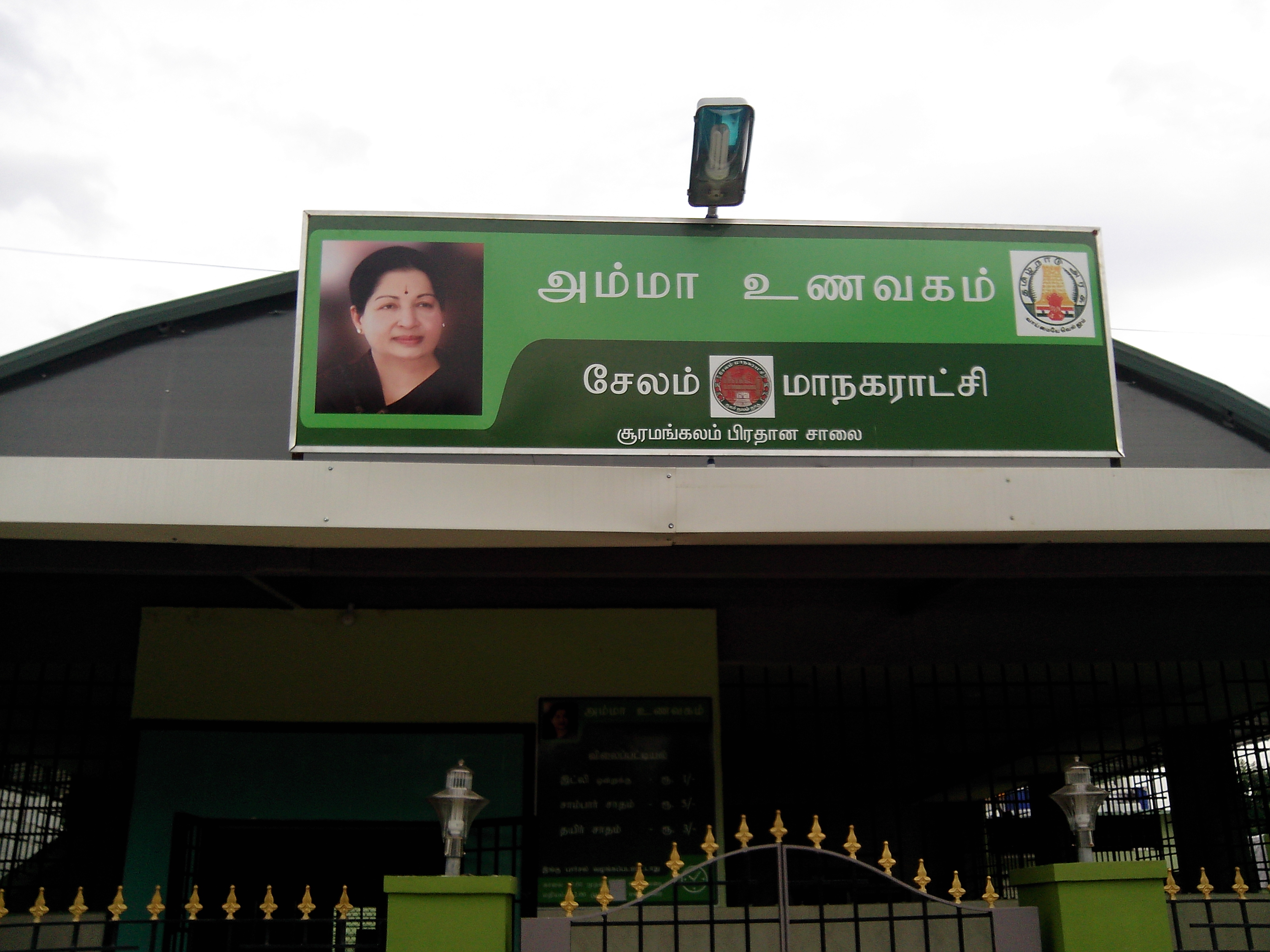 Amma Unavagam, literal translation: "Mom's Restaurant" - is a food subsidization program, enacted by the Tamil Nadu state government, in India. Under this scheme, the state's municipal corporations run canteens serving food, mainly Idlis, Sambar Rice and Curd rice at low prices.Amma Unavagam an Innovative project announced and implemented by Dr. J.Jeyalalithaa,Honourable Chief minister of Tamil Nadu,India. The place of Amma Unavagam is situated at, Uzhavar Chanthai Salem.